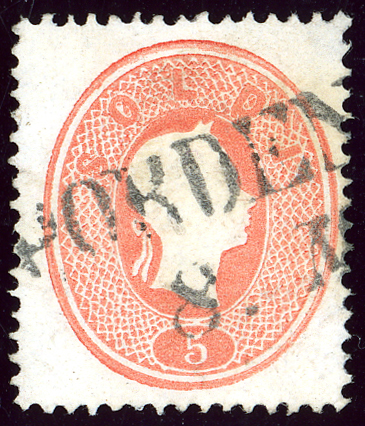 Stamp of Lombardy-Venetia, 5 soldi issue 1861, linear cancelled PORDENONE, Mueller type RL-R, Friuli-VG Region, Italy. Mi12.